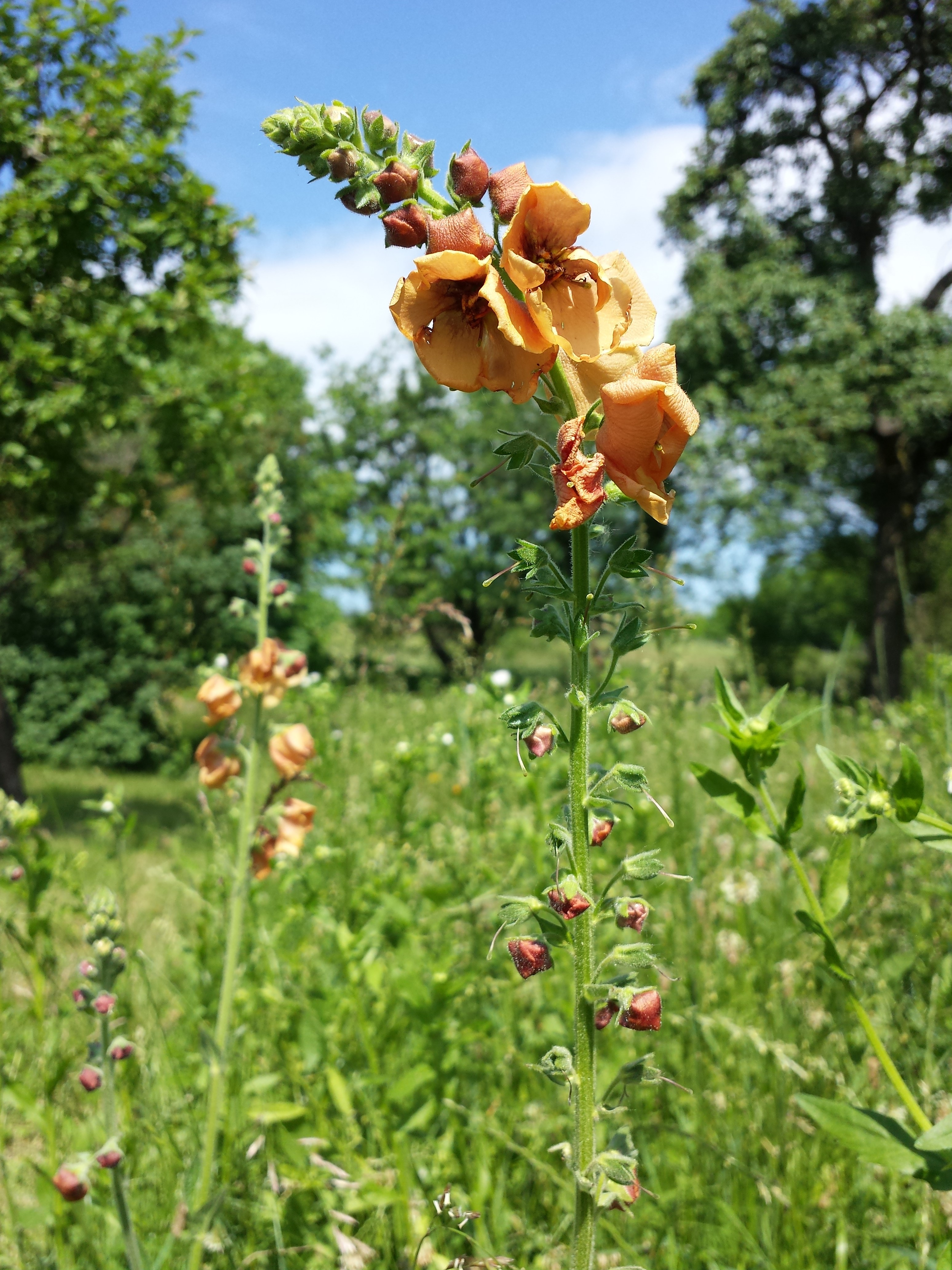 Inflorescence Taxonym: Verbascum blattaria × phoeniceum ss Fischer et al. EfÖLS 2008 ISBN 978-3-85474-187-9; det. Gergely Király 2015-06-04 Location: Hills near Kemendollár, Zala County, Hungary - ca. 250 m a.s.l. Habitat: orchard